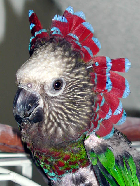 Red-fan Parrot (also known as the Hawk-headed Parrot). Photograph shows upper body of a pet parrot.